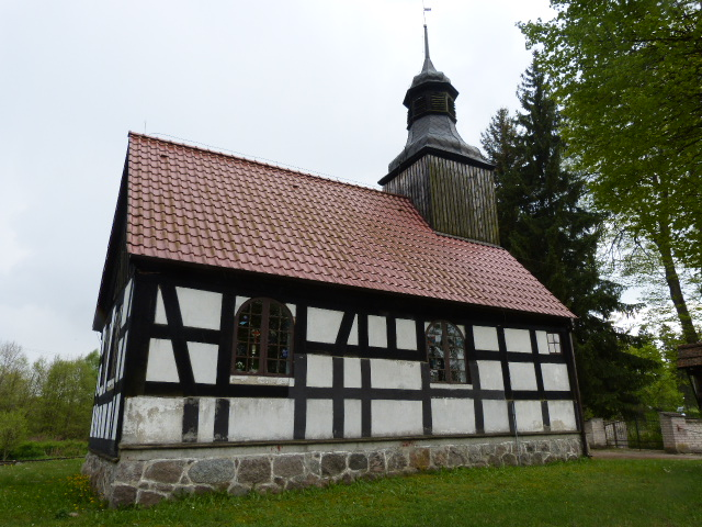 Saint Francis of Assisi church in Olszanowo, Poland